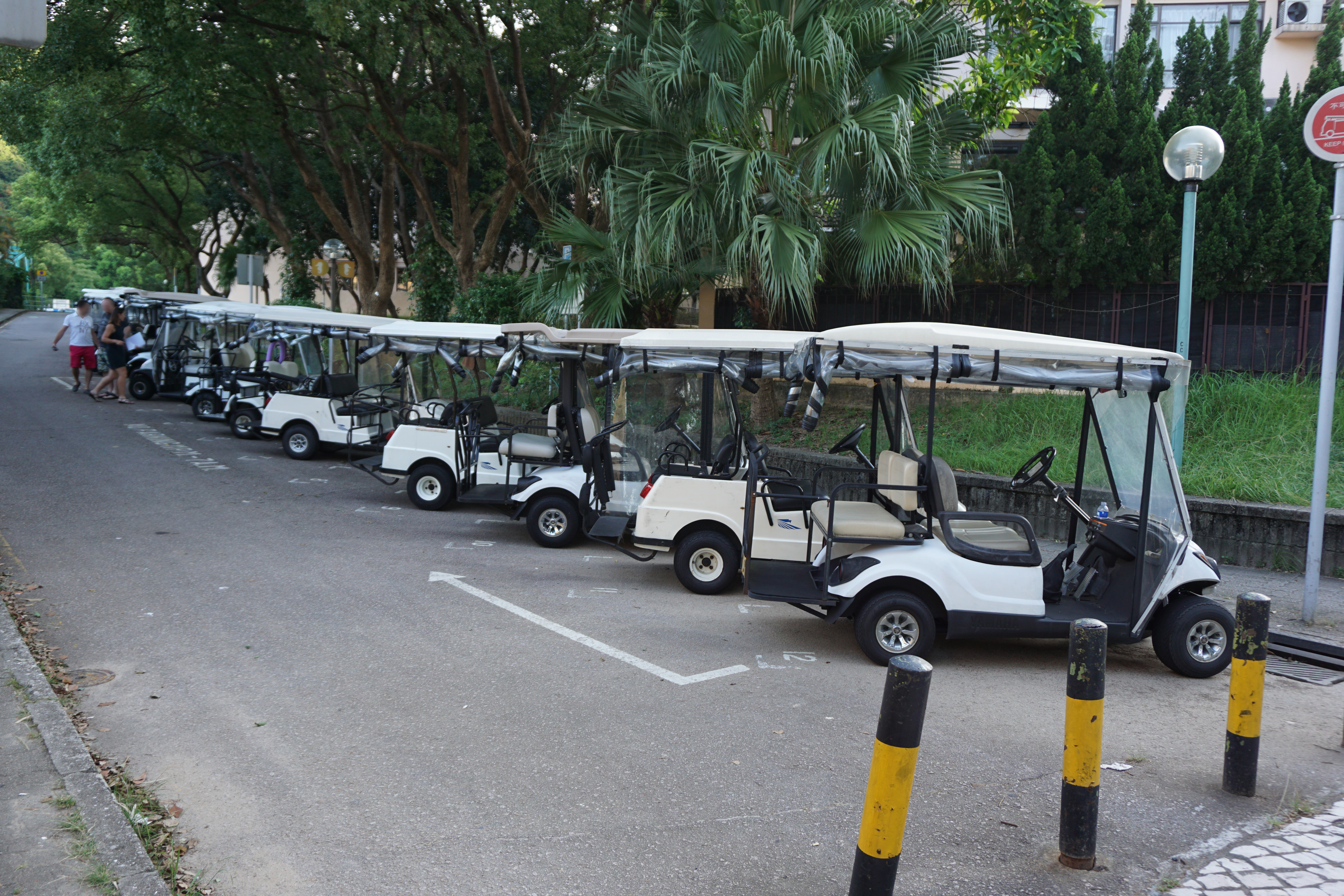 Discovery Bay in Lantau Island, Hong Kong.